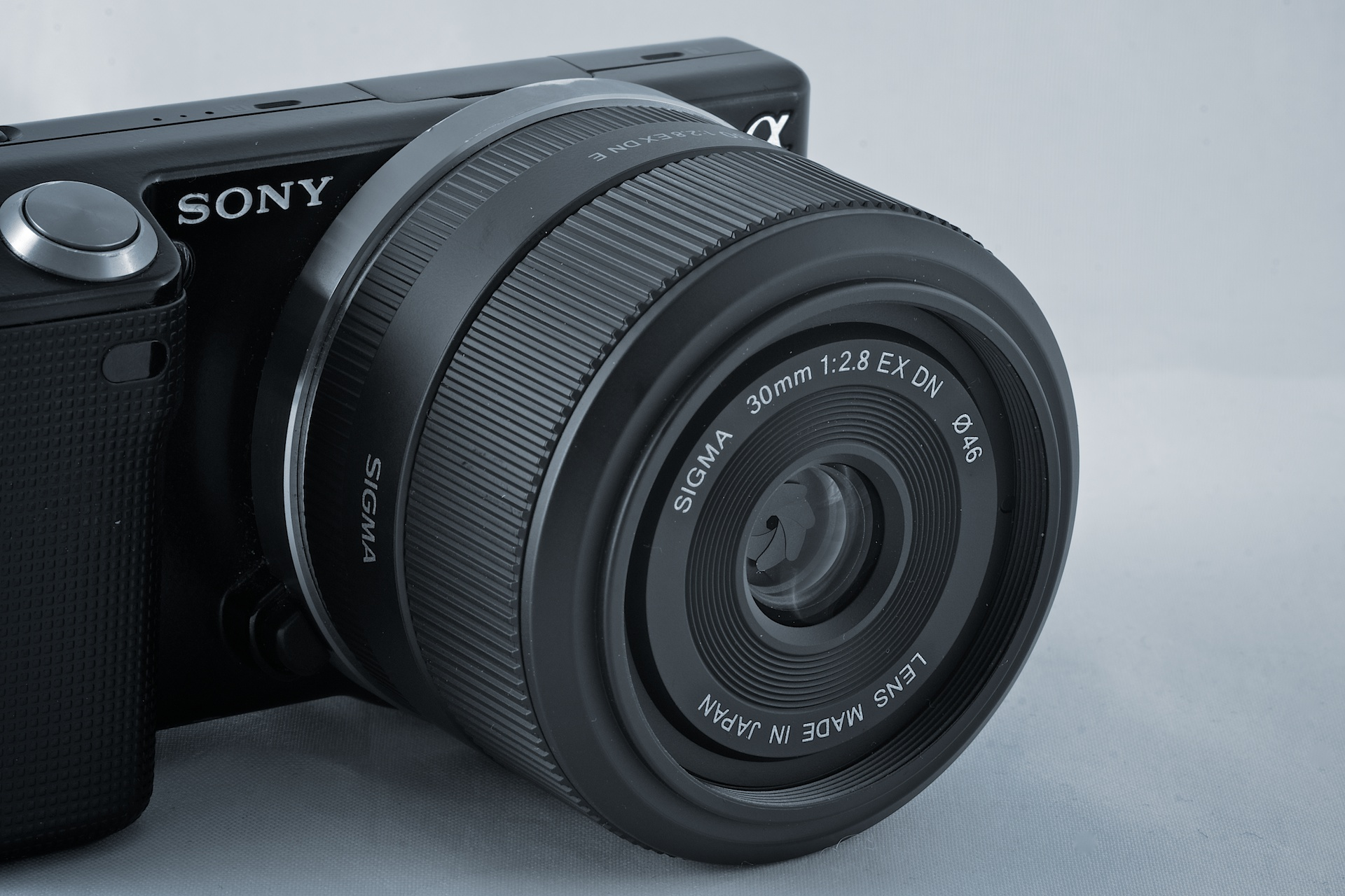 Struggling with my 366 project. Not much chance to take photos at the moment. Only going to and from work. It's too busy at work to take photos. I think I might restart themes.